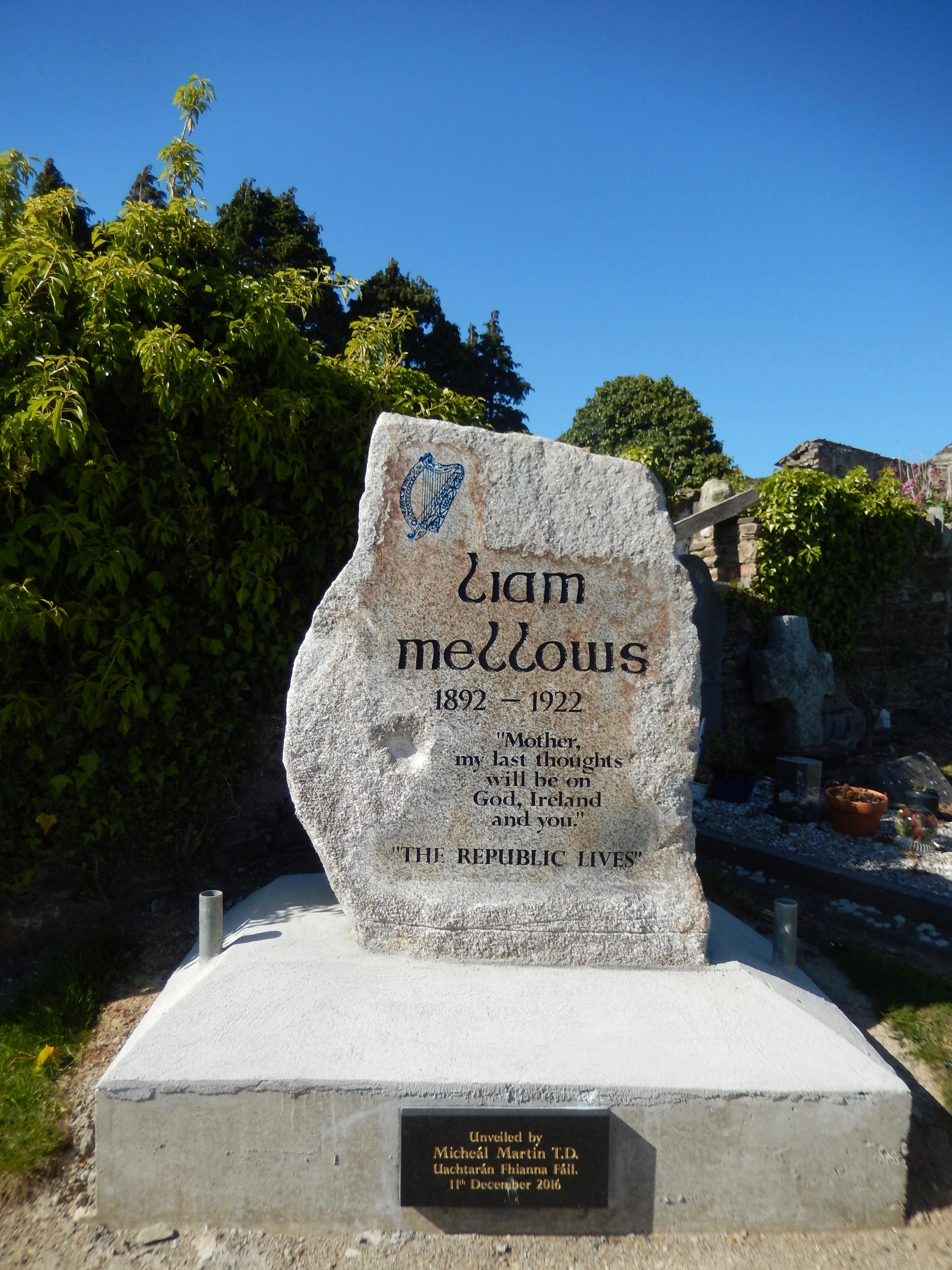 Gravestone of Liam Mellows, Irish Republican and Sinn Féin politician, unveiled in 2016 by Micheál Martin.